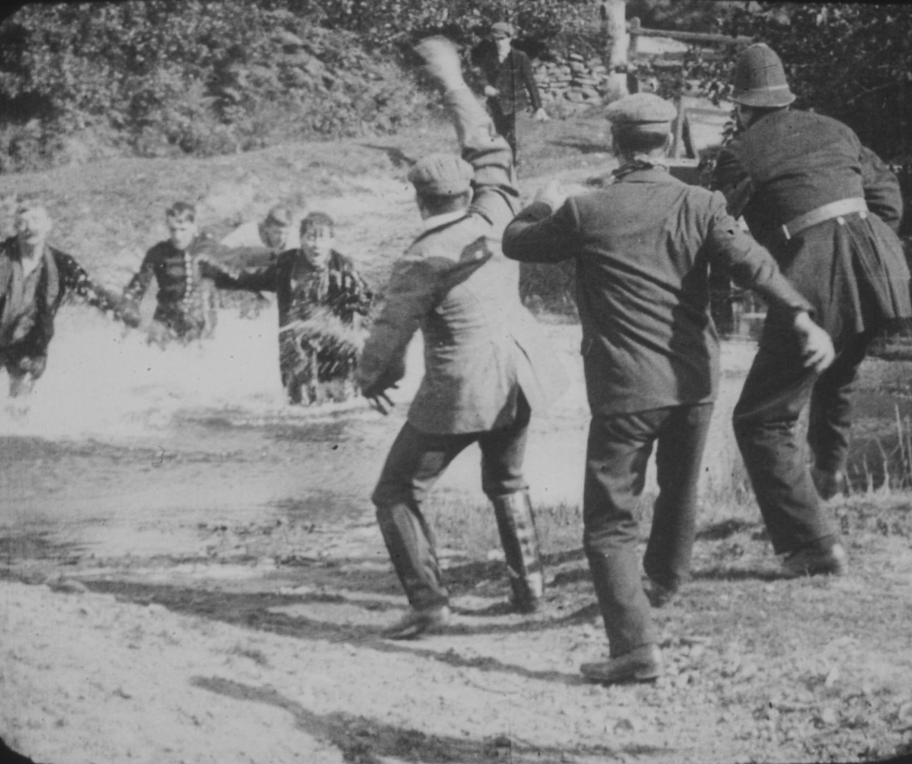 A still from William Haggar's 1903 silent short Desperate Poaching Affair.